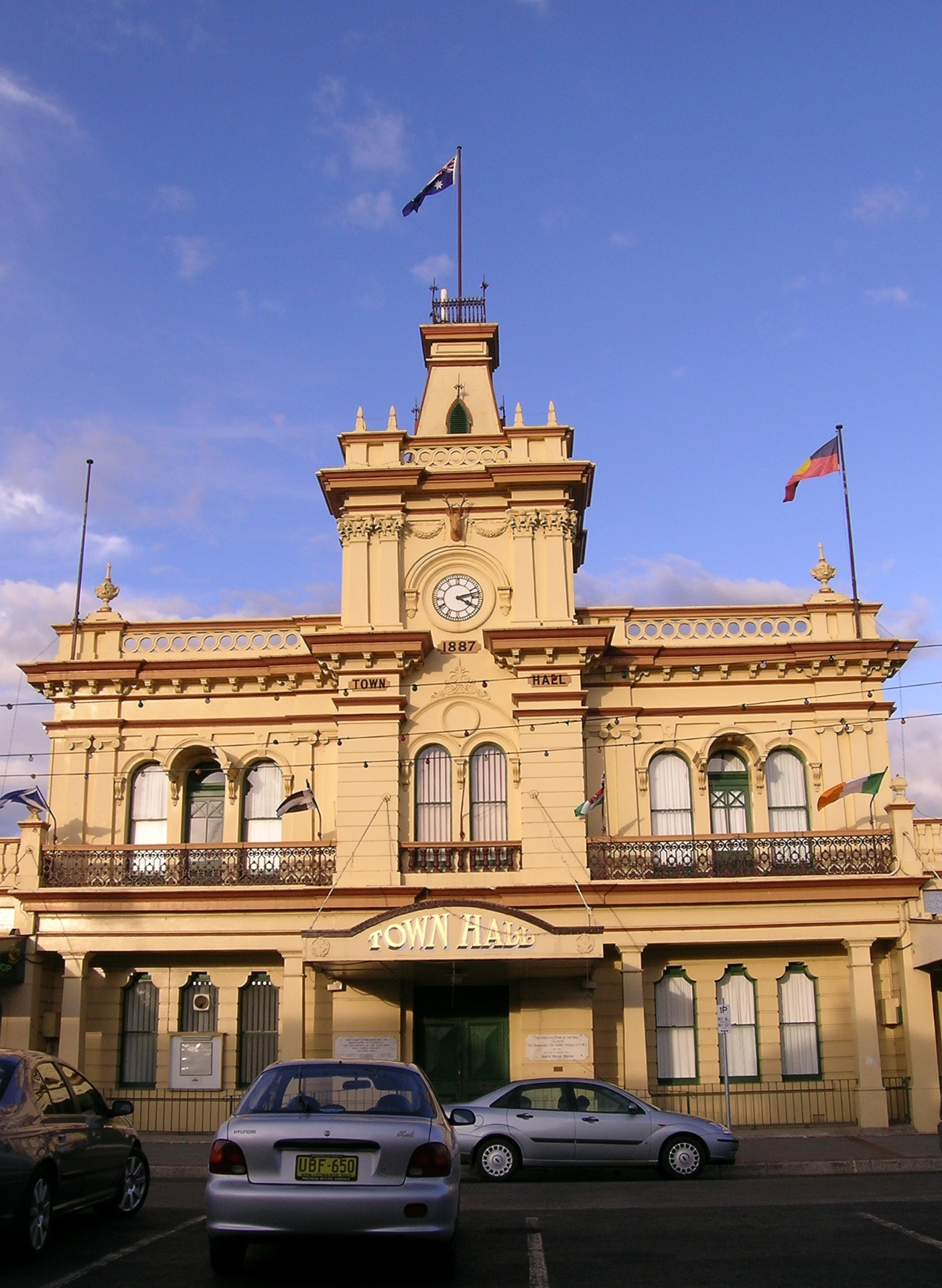 Town Hall, Glen Innes, NSW